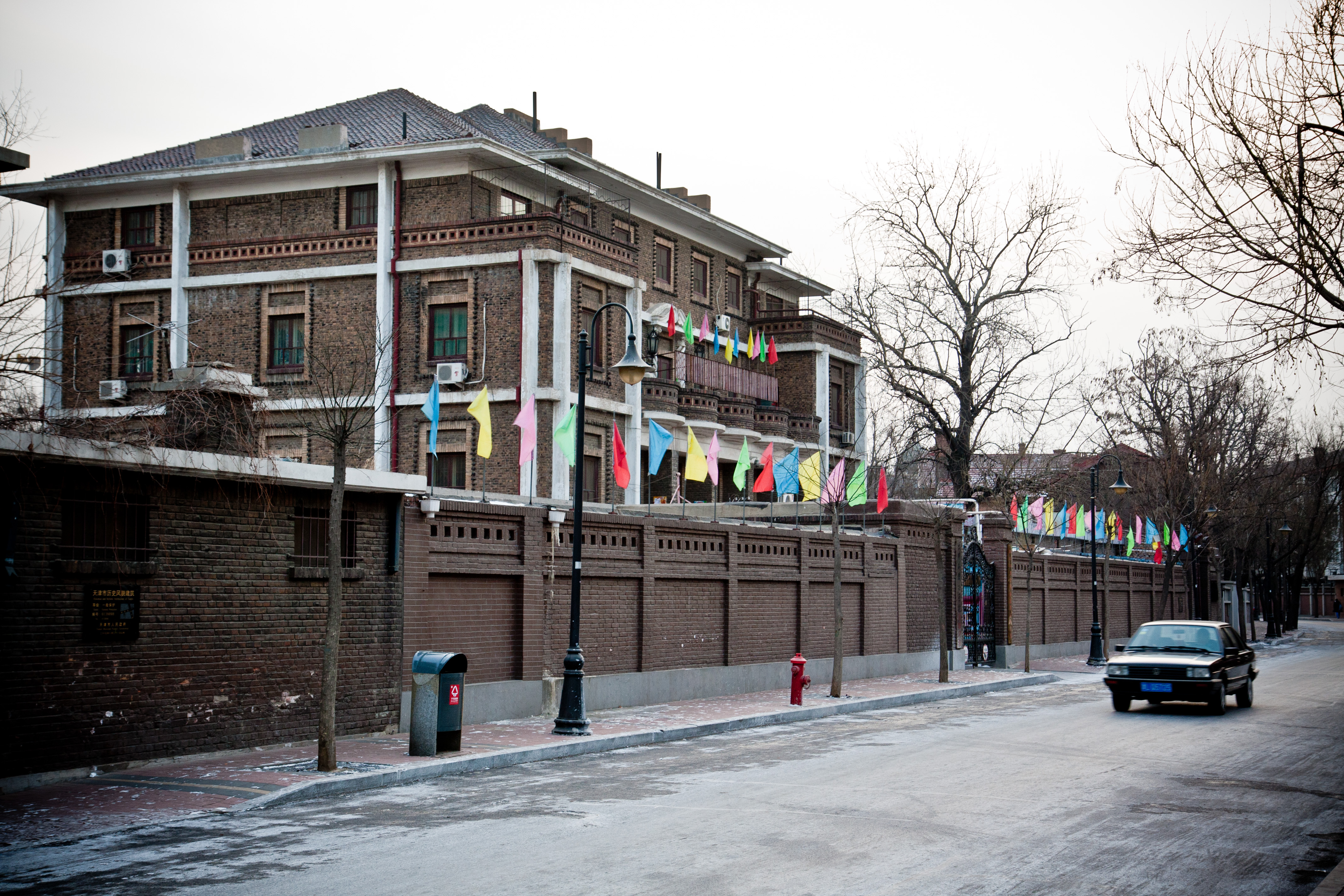 Multicolored flags at the former residence of Bian Rongqing, Munan Dao No. 79 in Tianjin's Five Big Streets area.